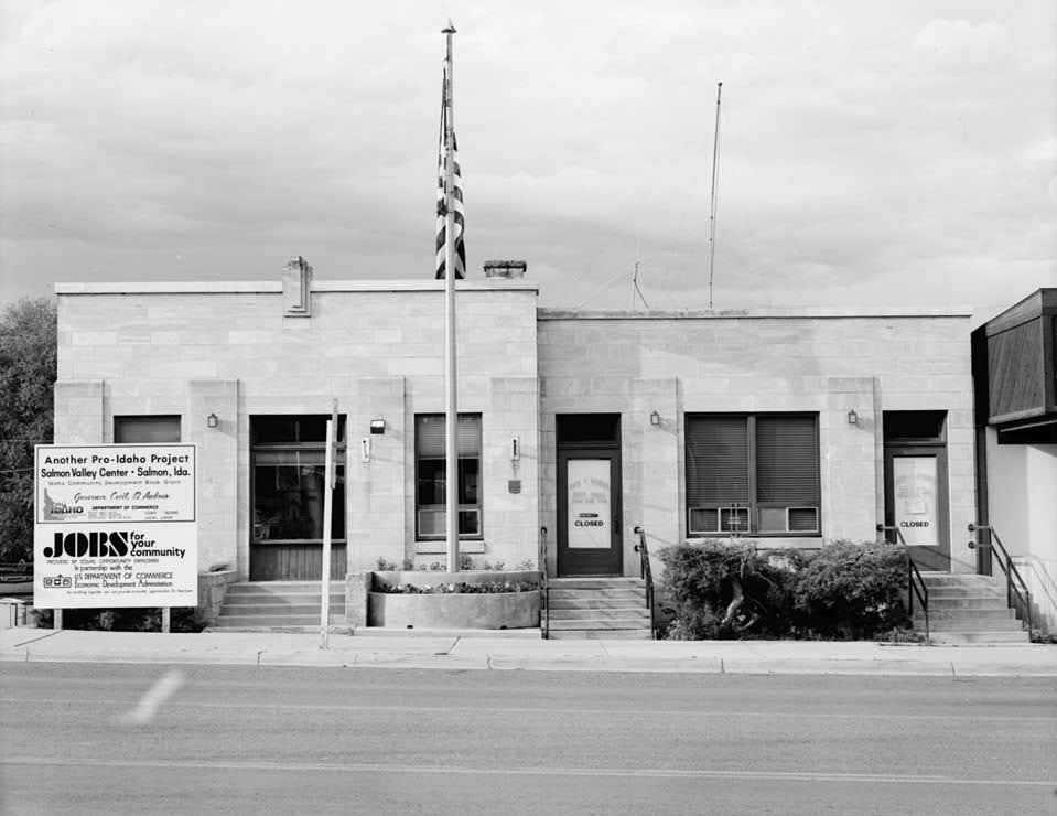 The Salmon City Hall and Library, located at 200 Main Street in Salmon, Idaho, United States. Built in 1939, the Art Deco standstone building is listed on the National Register of Historic Places.